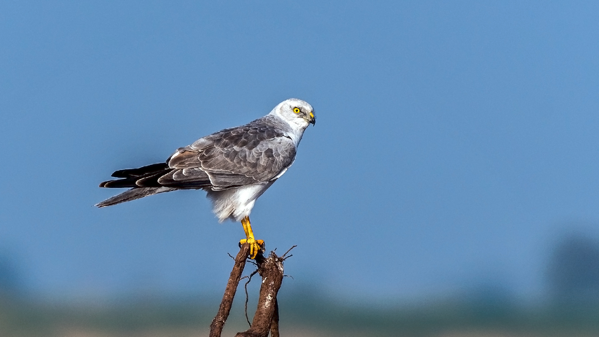 Pallid Harrier Male, captured at Rollapadu Wildlife Sanctuary, Andhra Pradesh, India; Photographed by Prasanna Kumar Mamidala